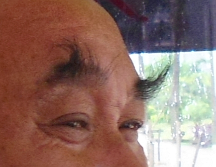 Long eyebrows on a Chinese man in Hainan Province, China